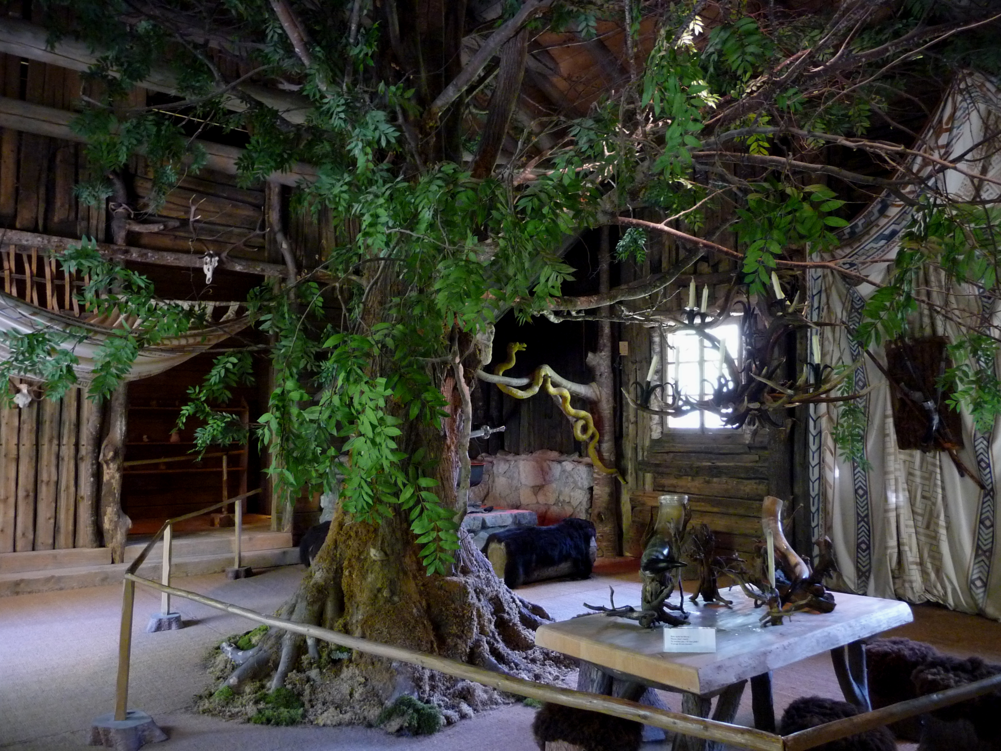 Interior of Hunding's Hut at Linderhof Palace, Bavaria, Germany